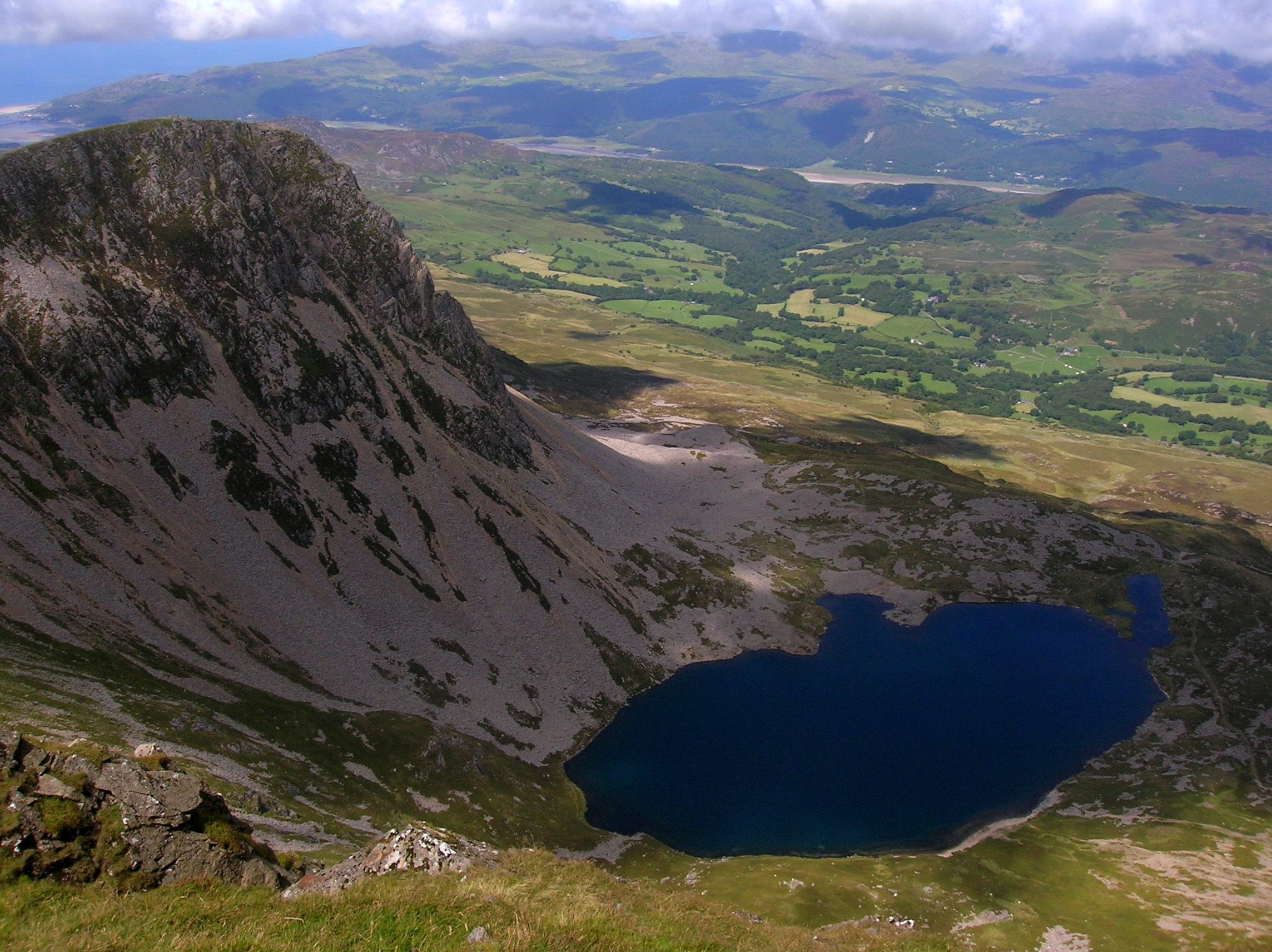 View of Llyn y gadair from east of Cadair Idris summit, Snowdonia, UK